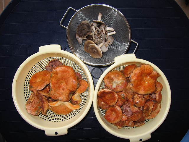 Mushrooms from Mt Ventouxx